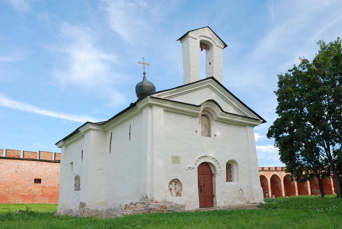 Andrew Stratelates Church in Novgorod Detinets